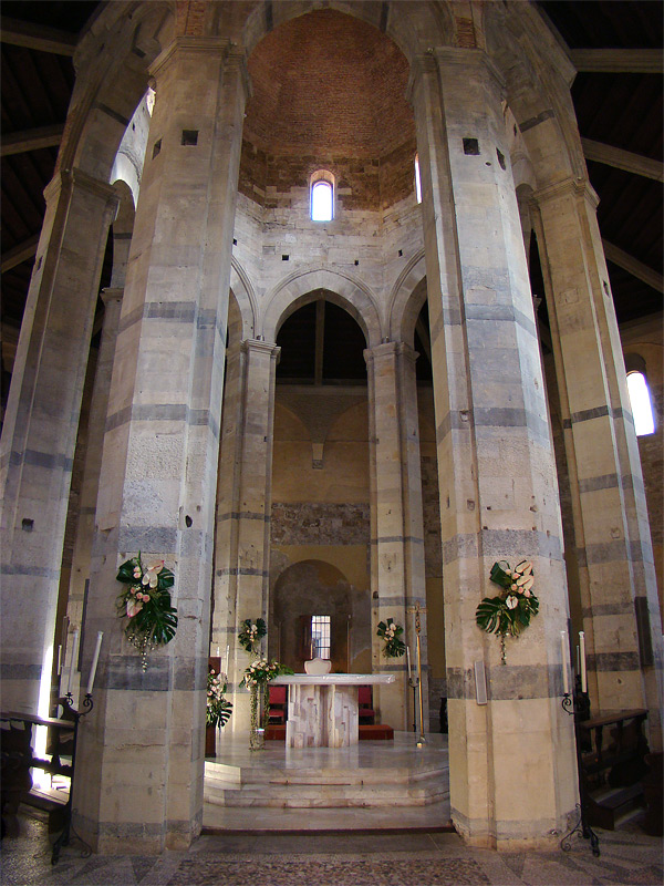 Church of Santo Sepolcro, Pisa, Tuscany, Italy.